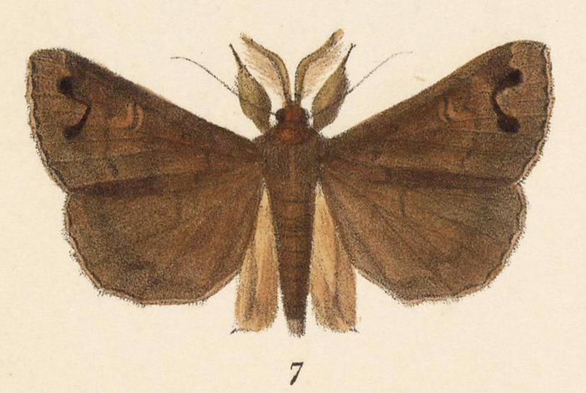 7. Strathocles ribbei Original caption: 1, 1a♂, 2♀ Mamerthes nigrilinea 3, 3a♂, 4♀ Nicetas panamensis 5, 5a♂ Nicetas annon 6, 6a♂ Nicetas lycon 7, 7a♂, 8♀ Strathocles ribbei 9♀ Strathocles imitata 10, 10a♂, 11♀ Pyrgion menippusalis 12♂ Bleptina malia 13♀ Bleptina (?) lasaea 14 Bleptina (?) antinoe 15♀ Bleptina (?) magas 16♀ Bleptina (?) antelia 17♂ Bleptina (?) aratus 18♀ Bleptina (?) macedo 19♀ Bleptina (?) lyceus 20, 20a♂ Aristaria lydia 21♀ Aristaria (?) lysis 22♂ Aristaria (?) lycaon 23♂ Aristaria (?) apicata 24♂ Aristaria (?) moera